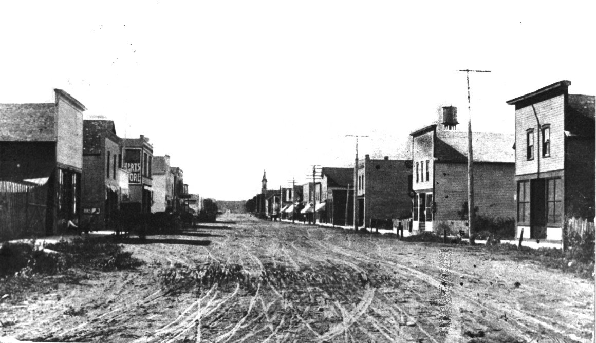 Main Street, Browerville, Minnesota, USA, circa 1910. View facing south.